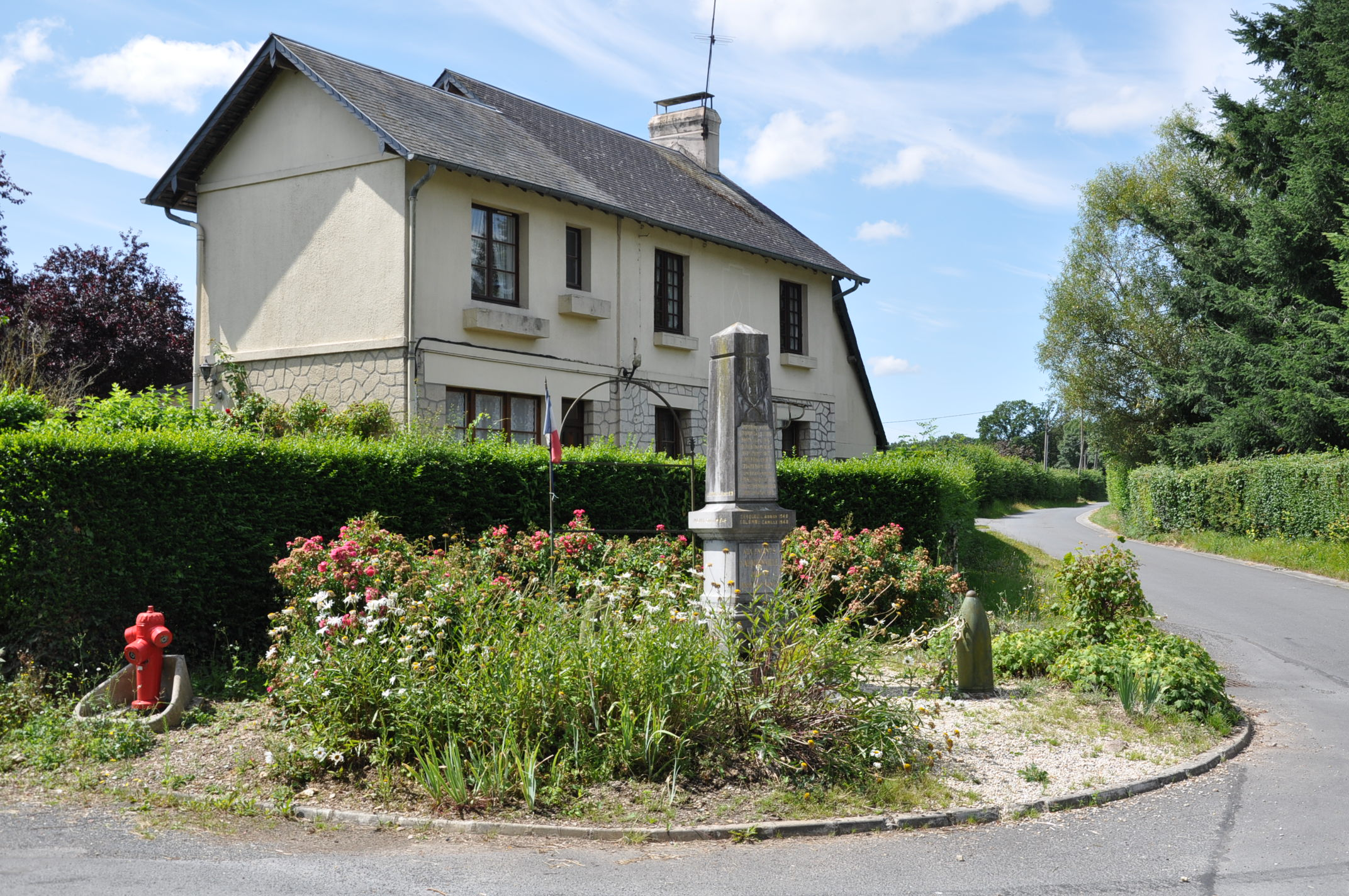 The centre of Auquainville with the World War I memorial. The house was once the village pub (Calvados department, Lower Normandy, France).